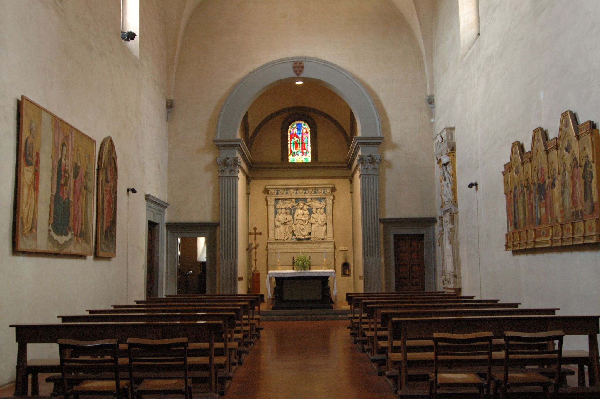 see above